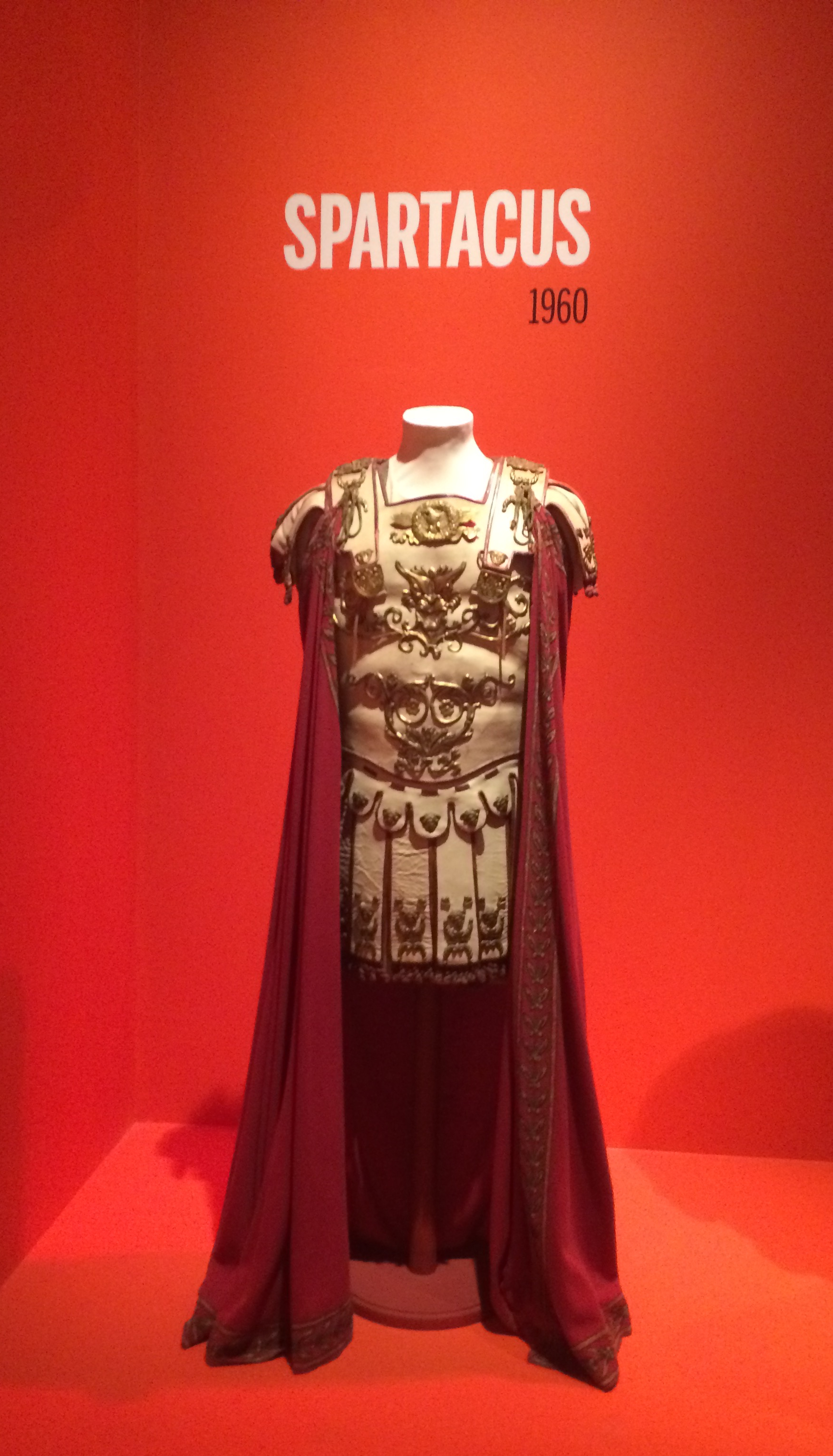 Roman armour and tunic worn by Laurence Olivier as Marcus Licinius Crassus in Spartacus (1960). Stanley Kubrick: The Exhibit, TIFF, Canada.Arlington Valles and Bill Thomas shared the Best Costume Design Oscar for Spartacus.Courtesy of the Costumi D'Arte Peruzzi, Rome.source